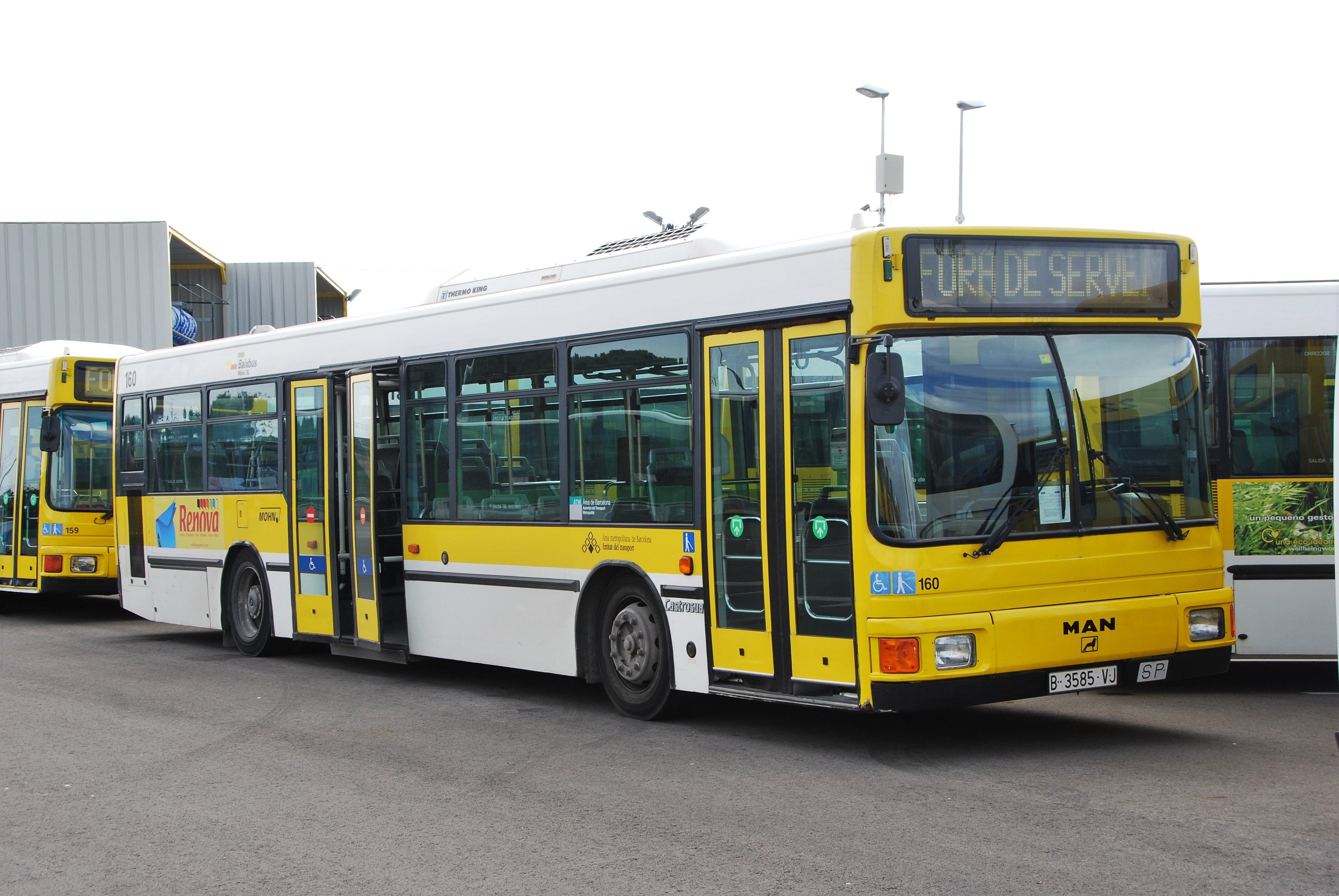 Bus 160 of Mohn S.L. in Gavà's garages.